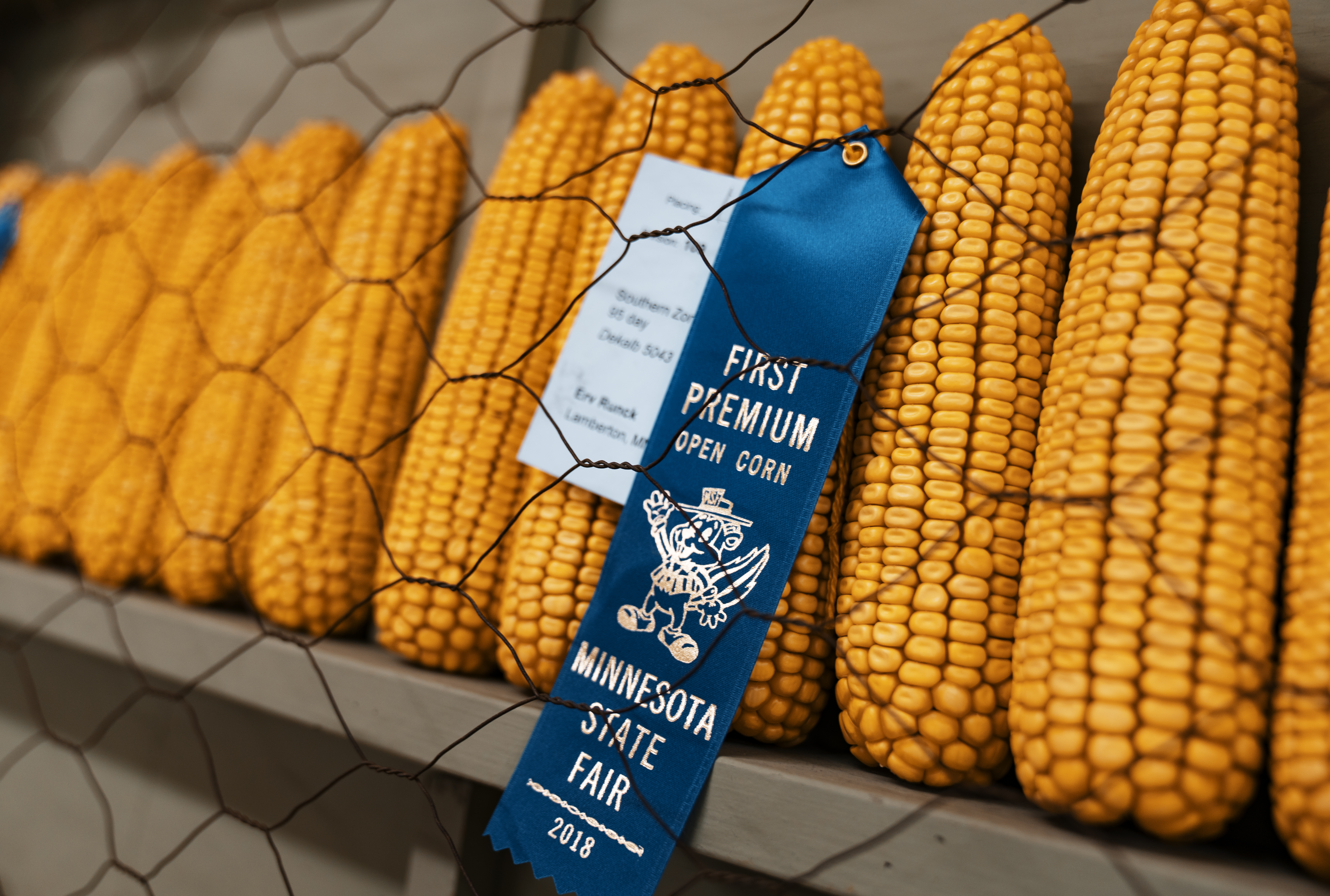 Minnesota State Fair on August 29, 2018. Decal 5043 FIRST PREMIUM OPEN CORN